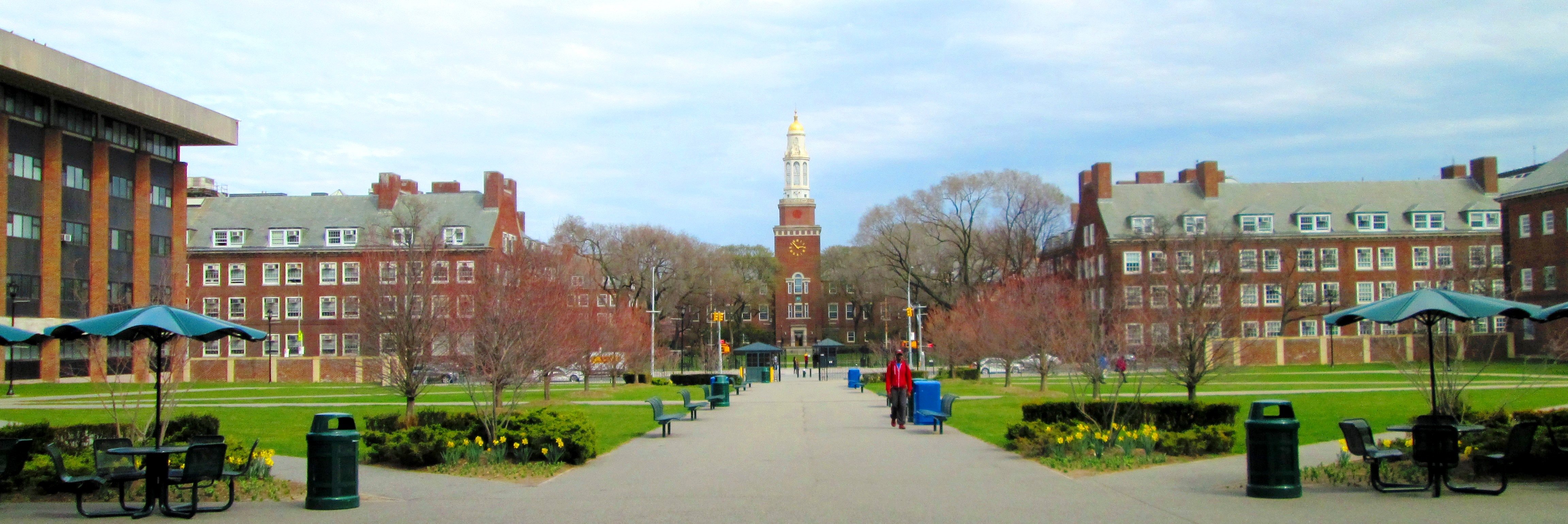 Brooklyn College is a senior college of the City University of New York, located in the Midwood neighborhood of Brooklyn, New York City. The origin of Brooklyn College occurred in 1910 with the establishment of an extension division of the City College for Teachers. The school then began offer evening classes for first-year male college students in 1917. In 1930 by the New York City Board of Higher Education, the College authorized the combination of the Downtown Brooklyn branches of Hunter College – at that time a women's college – and the City College of New York – a men's college – both of which had established been in 1926. With the merger of these branches, Brooklyn College became the first public coeducational liberal arts college in New York City. The college's 26-acre (110,000 m2) campus is known for its beauty, and is often regarded as "the poor man's Harvard" because of its low tuition and reputation for respectable academics. The master designer of the original Georgian style campus, now known as the "East Quad", was Randolph Evans. This image shows part of James Hall (West Quad), Boylan Hall, the Library and Ingersoll Hall, all on the East Quad and part of the original campus, and part of Roosevelt Hall on the West Quad.